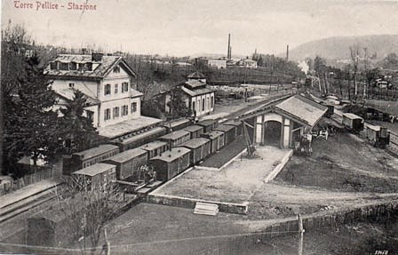 Torre Pellice railway station busy